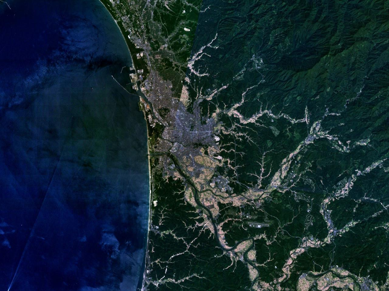 Akita, Japan